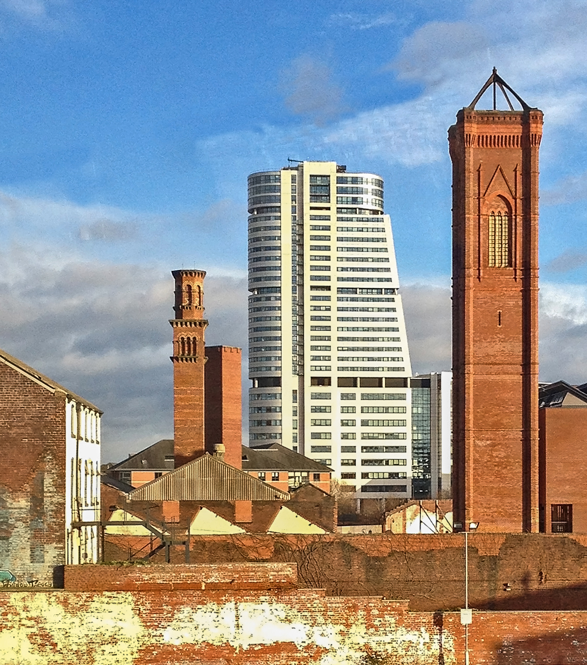 Leeds, through the window of a stationary train. Taken by Flickr user:Tim Green aka atouch on Saturday the 31st of January 2015.